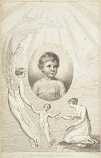 William Blake's engraved frontispiece to Malkin's memoir of his child, 1806